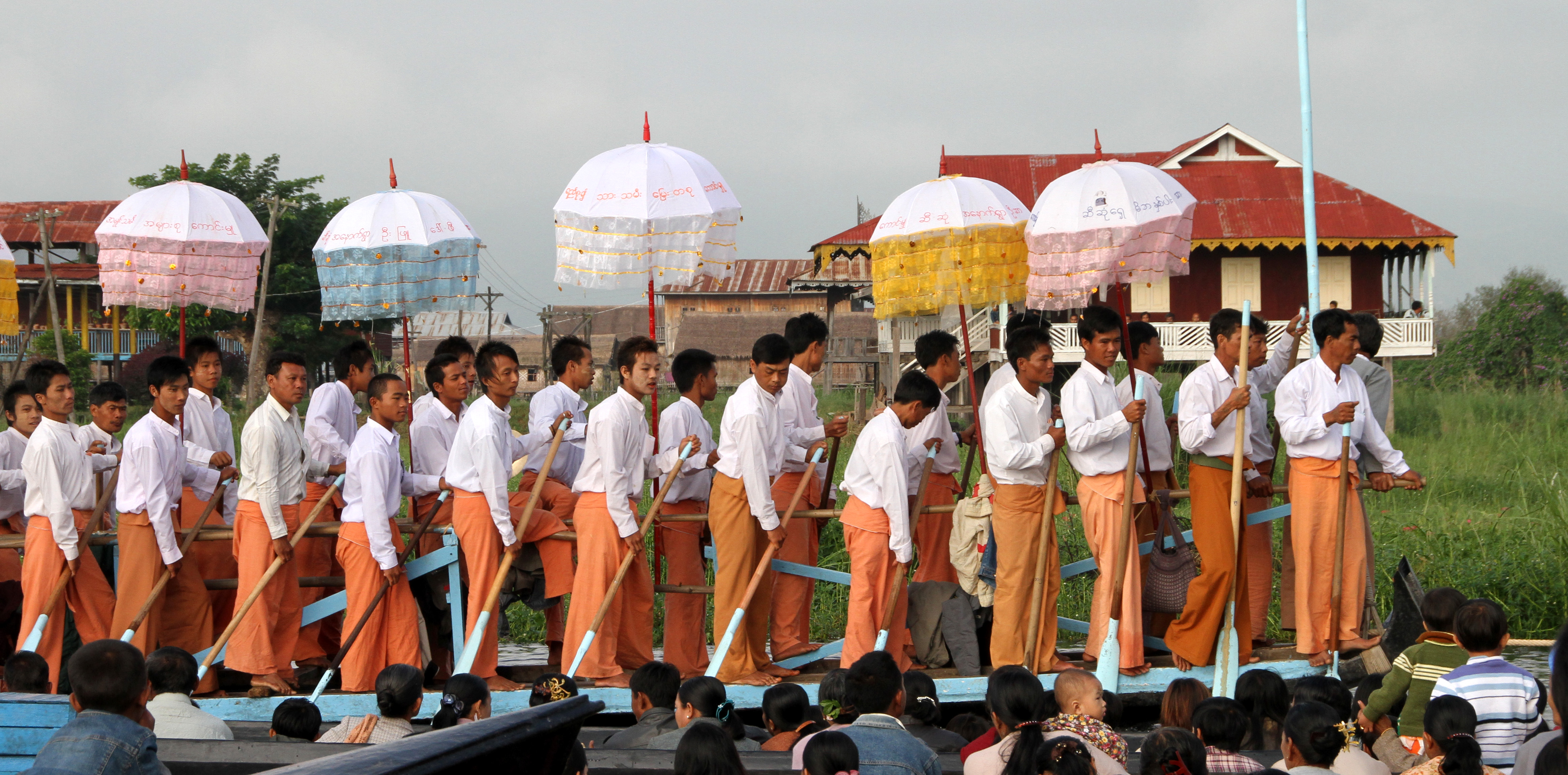 Phaung Daw U-Festival, boat, Inle lake, Myanmar.